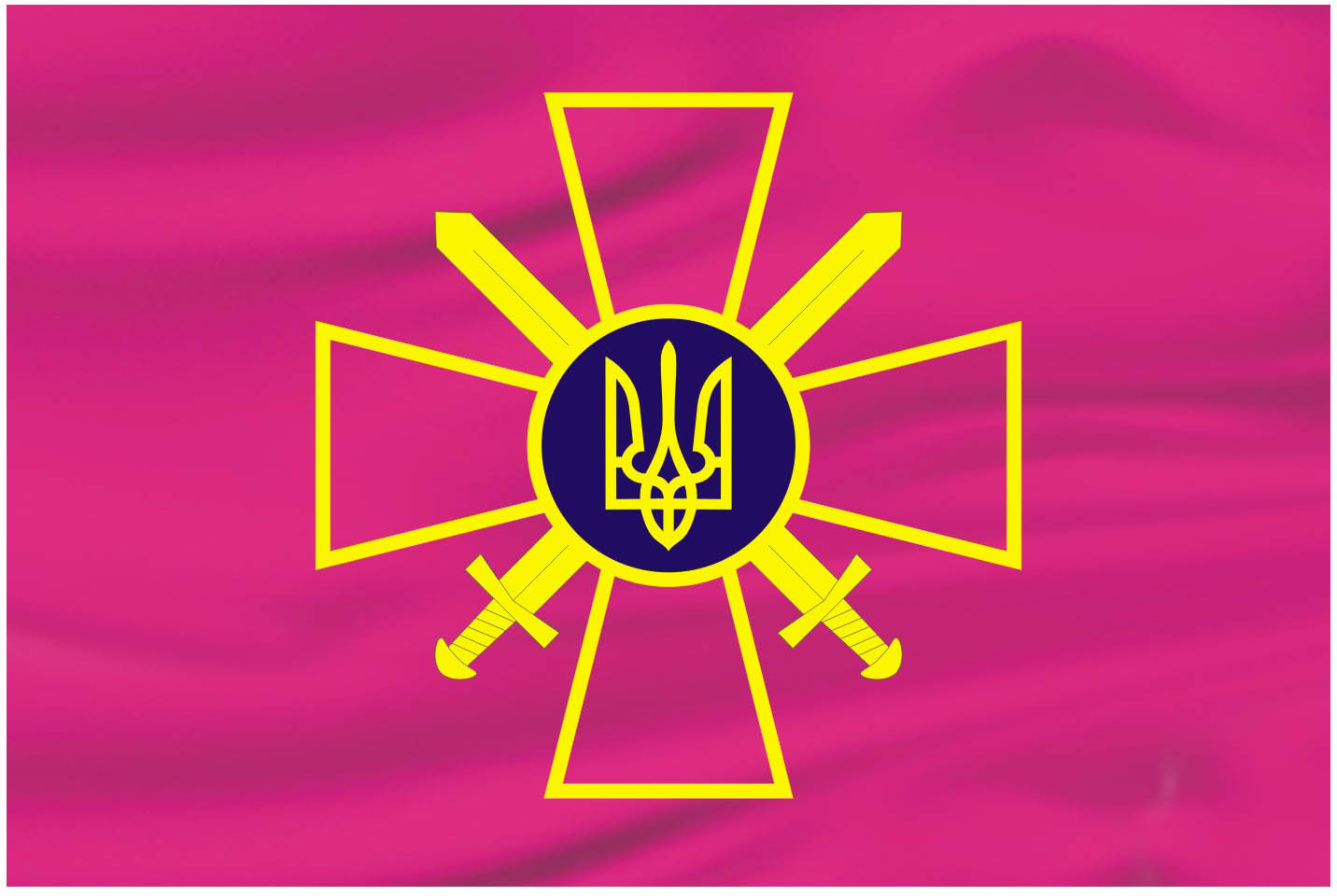 Ensign of the Ukrainian Ground Forces